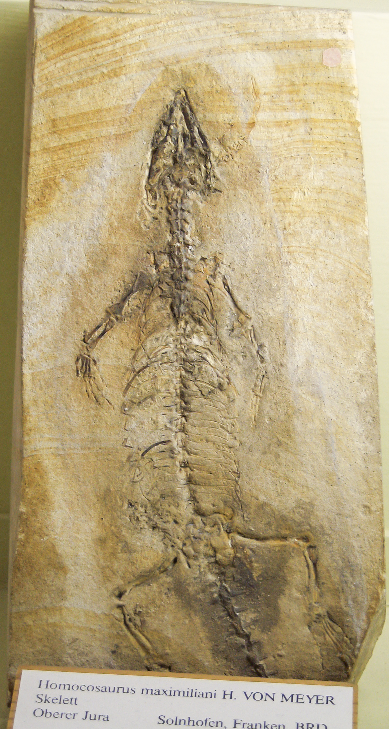 Fossil of a Homoeosaurus maximiliani, Solnhofen. Museum für Naturkunde (Berlin).